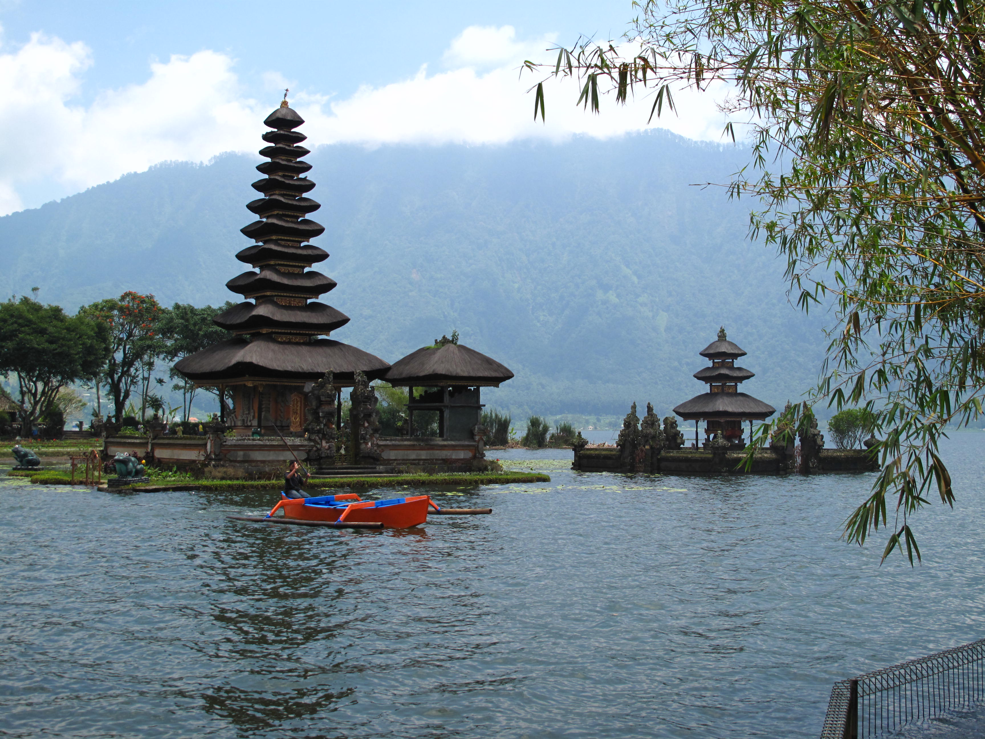 View of water at Pura Ulun Danau Bratan, Bali, Indonesia